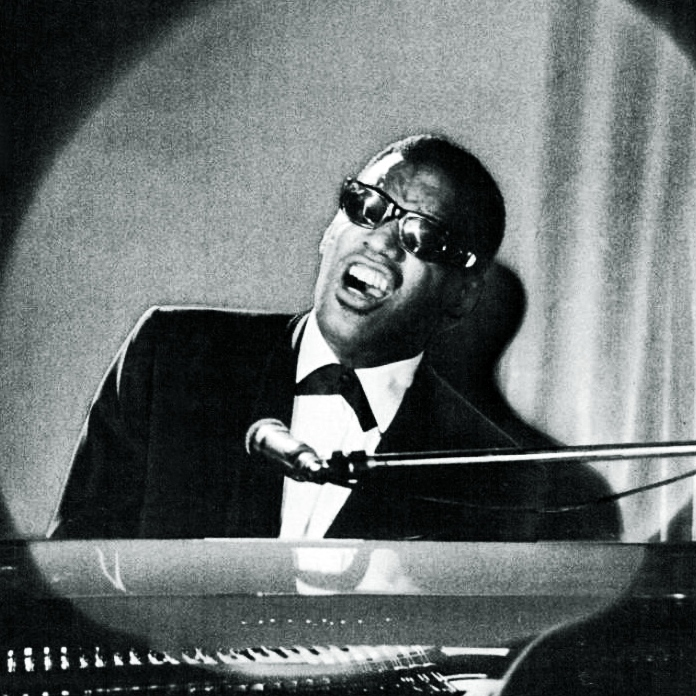 Trade ad for Ray Charles's single "Yesterday", cropped and cleaned in a graphics editing program. The original can be viewed at the source below.